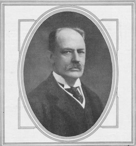 Swedish army officer and director-general of Postverket Richard Ossbahr (1853-1936)